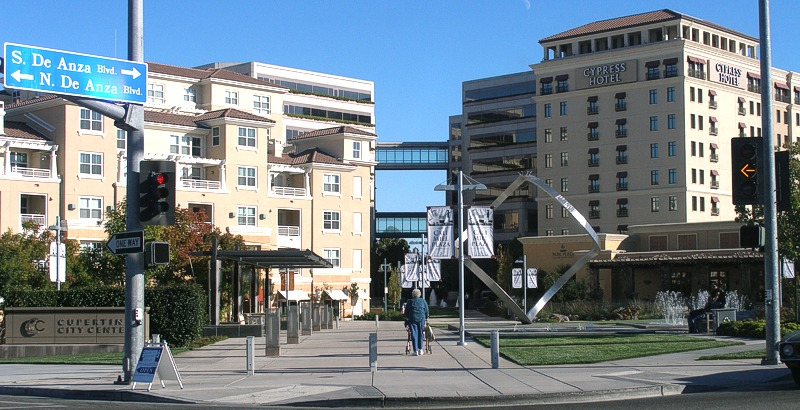 Cali Mill Plaza, Cupertino City Center, at the intersection of De Anza and Stevens Creek Boulevards in Cupertino.